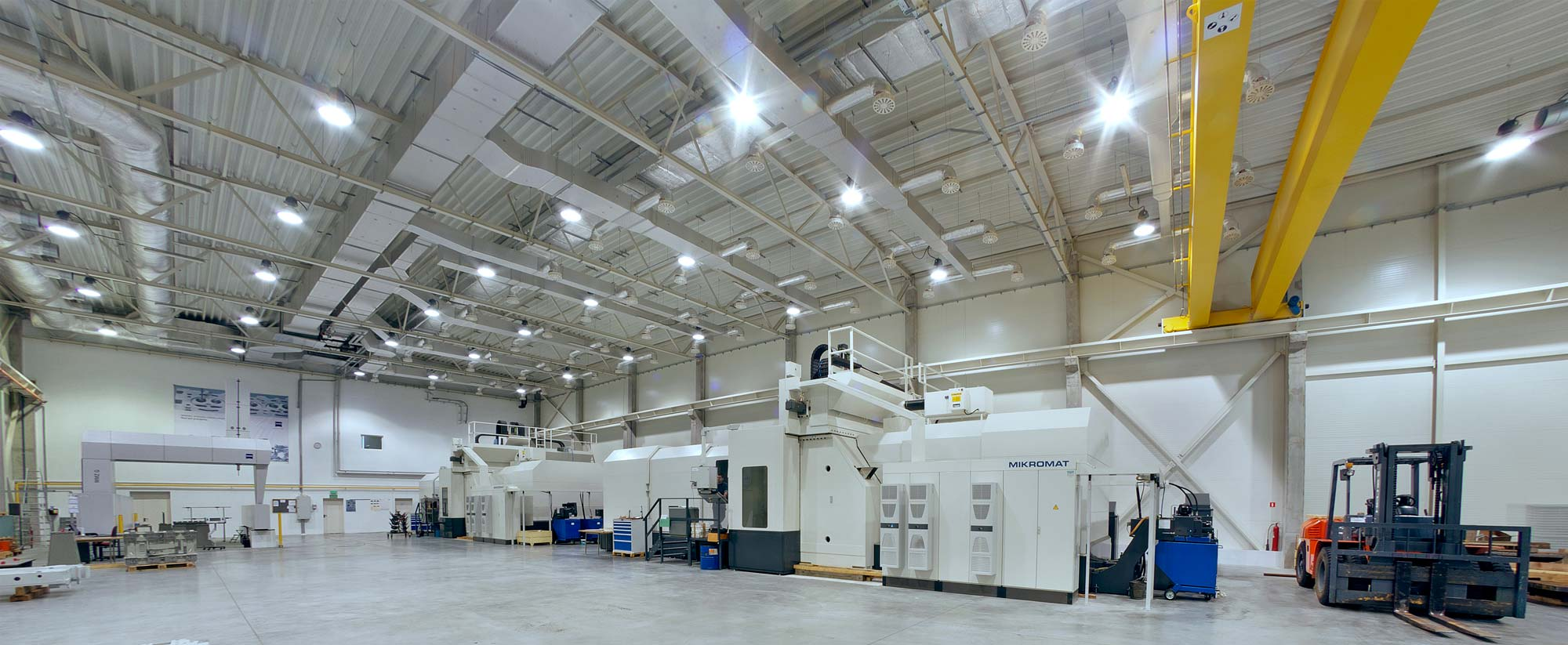 Large parts precision machining center